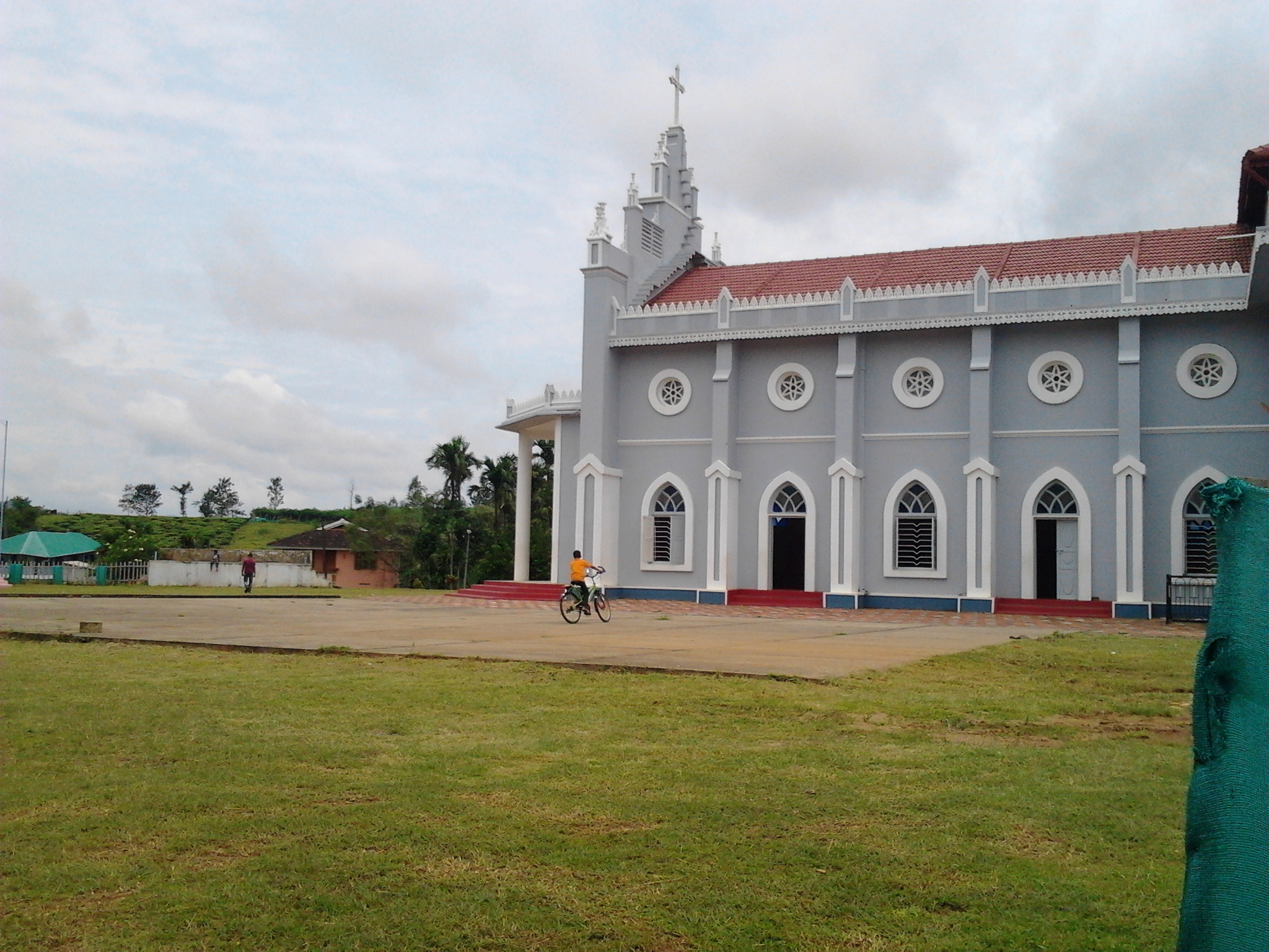 St. Joseph's Shrine, Mooppanad, Meppadi